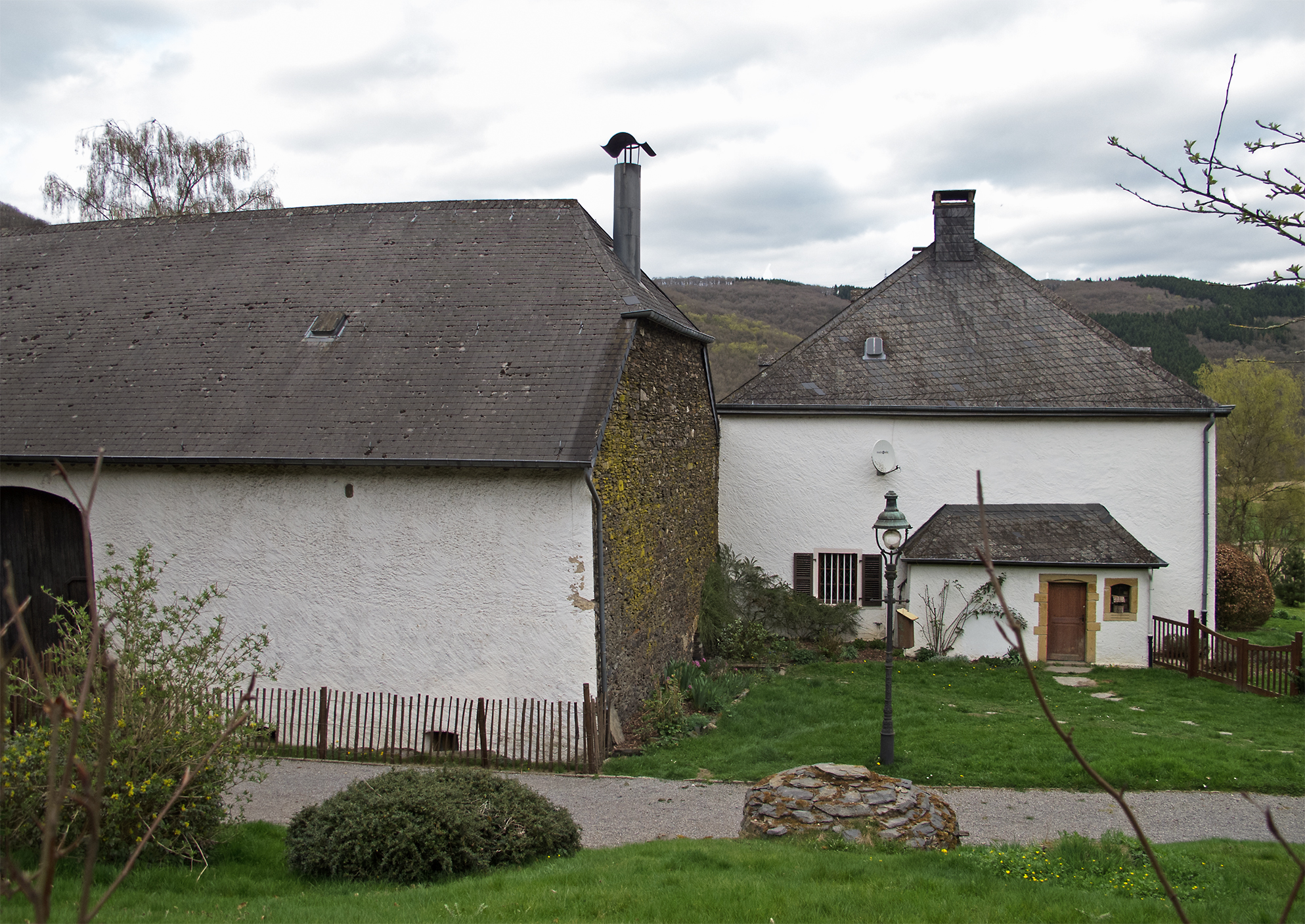 "Ferme d'Huart" in Bockholtz (Goesdorf), 4 Am Aale Wee